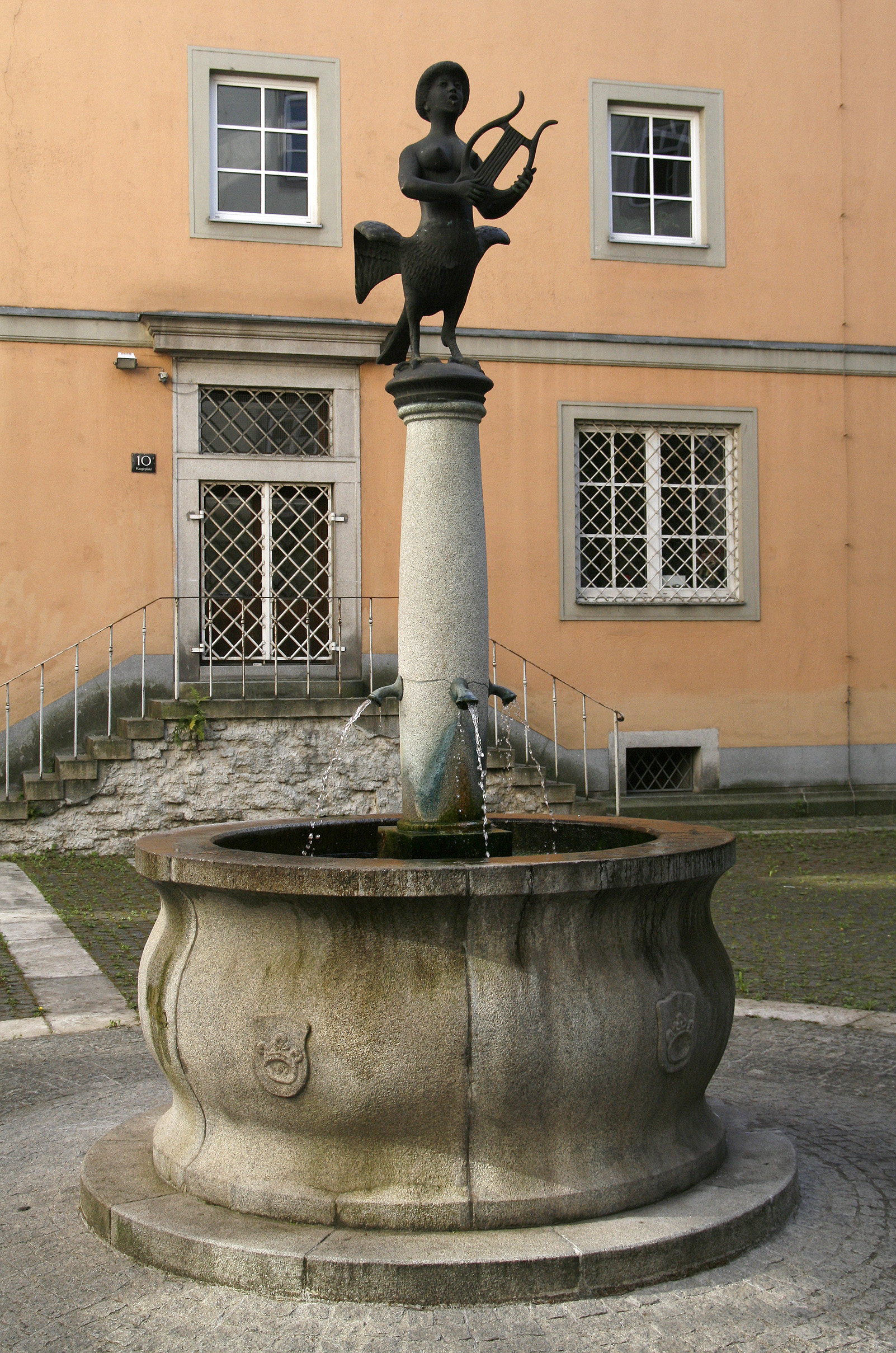 Fountain at the courtyard of the University of Arts and Industrial Design Linz.